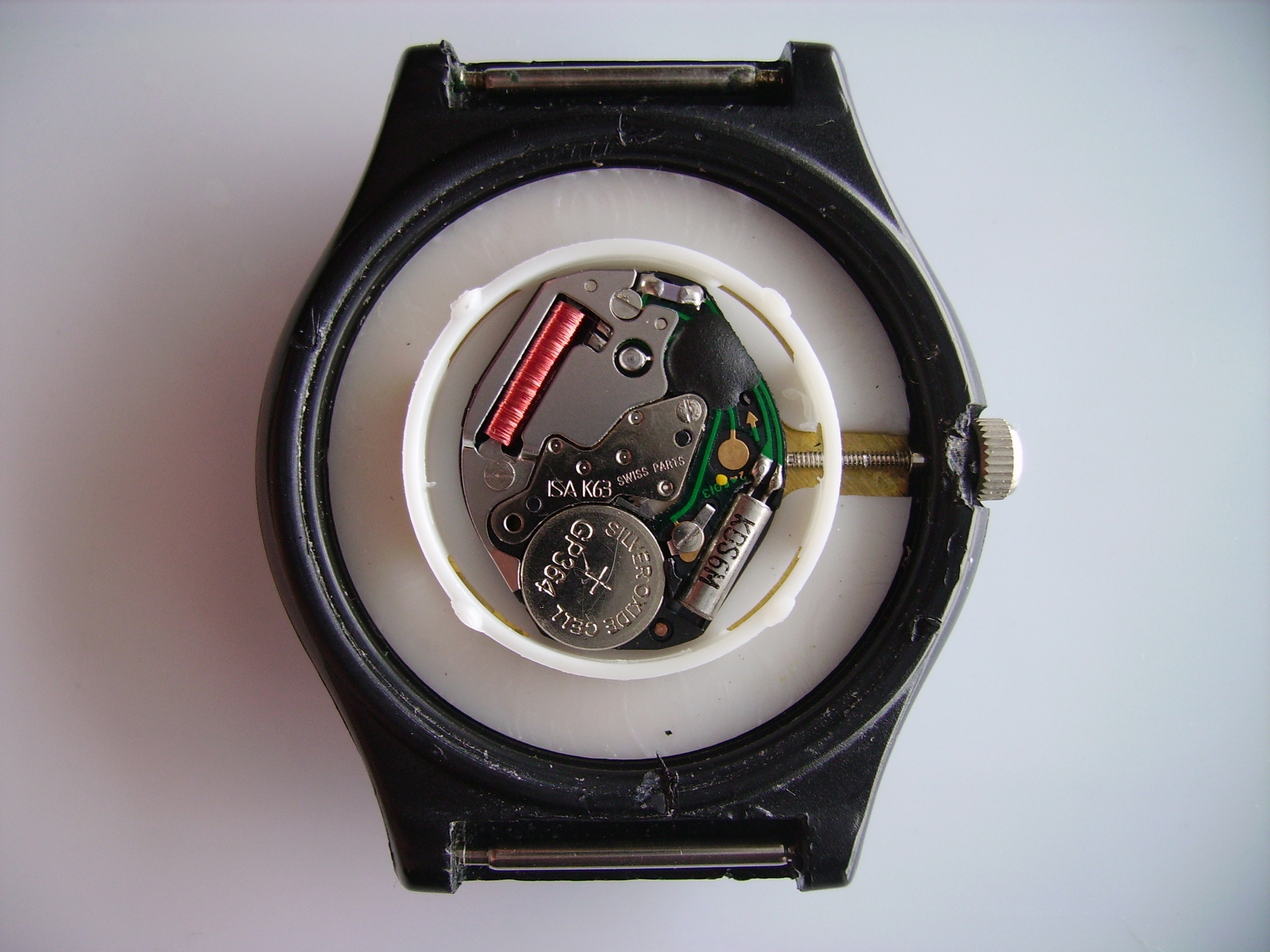 Basic ISA K63 low priced quartz wristwatch movement. Bottom right quartz crystal oscillator. Bottom left button cell watch battery. Top right oscillator counter. Top left the coil of the stepper motor that powers the watch hands.